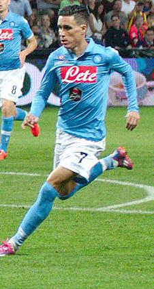 Jose Callejon playing for Napoli. Cropped